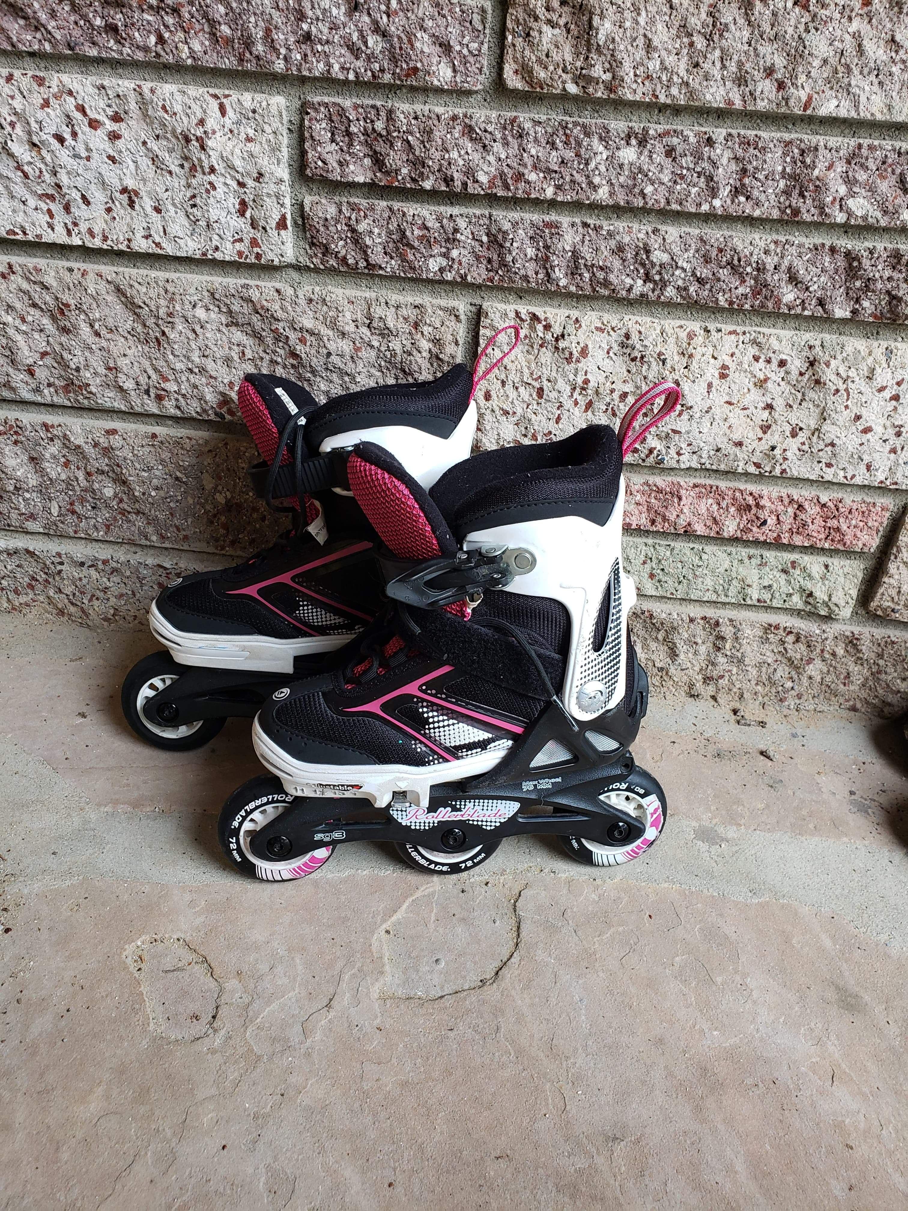 Children's three wheel Rollerblades